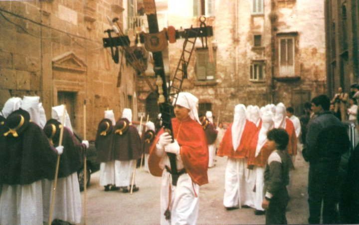 Holy week celebrations in Taranto